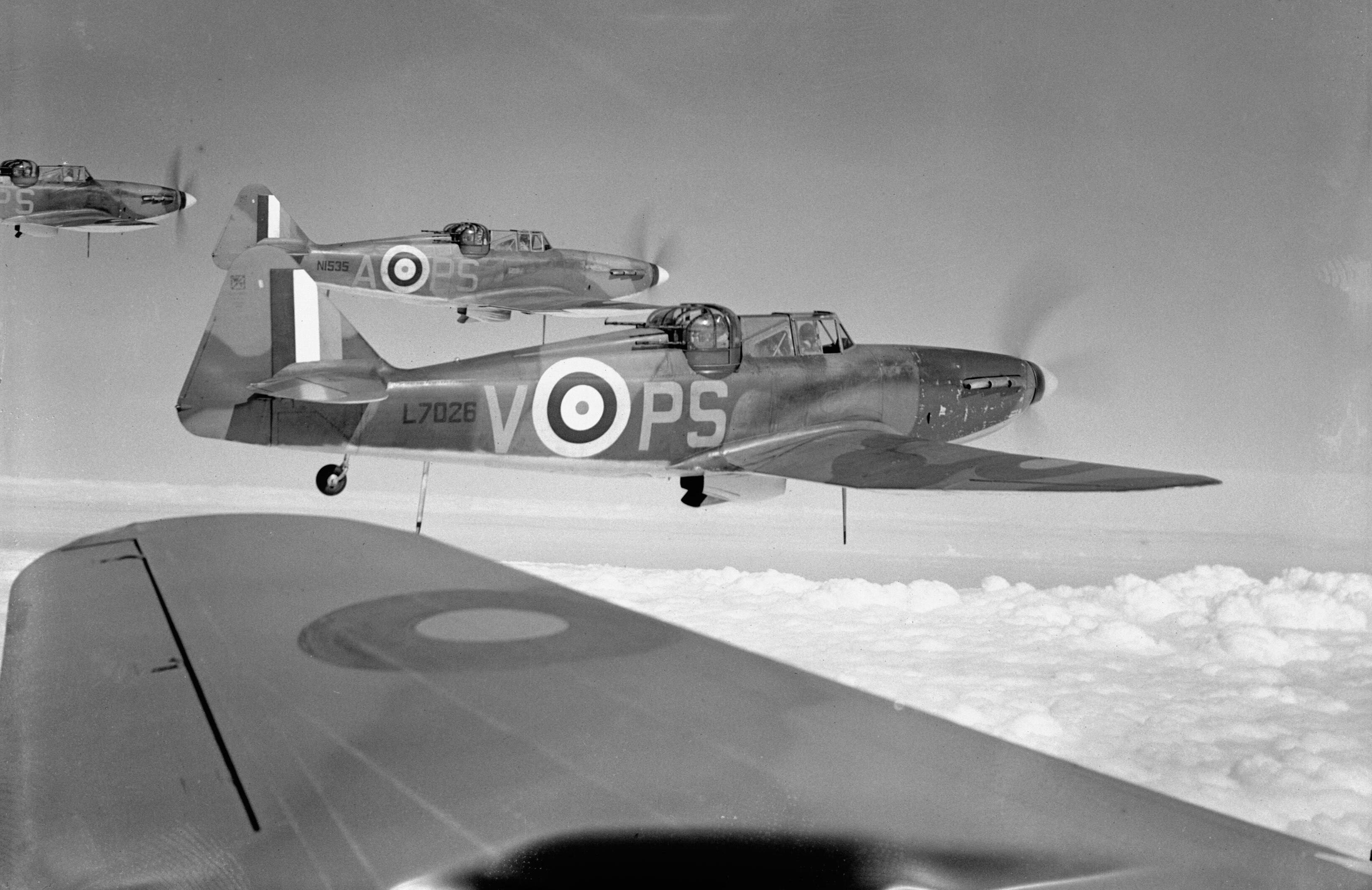 Royal Air Force Boulton Paul Defiant Mk Is of No. 264 Squadron RAF (including L7026 "PS-V" and N1535 "PS-A") based at Kirton-in-Lindsey, Lincolnshire, August 1940.